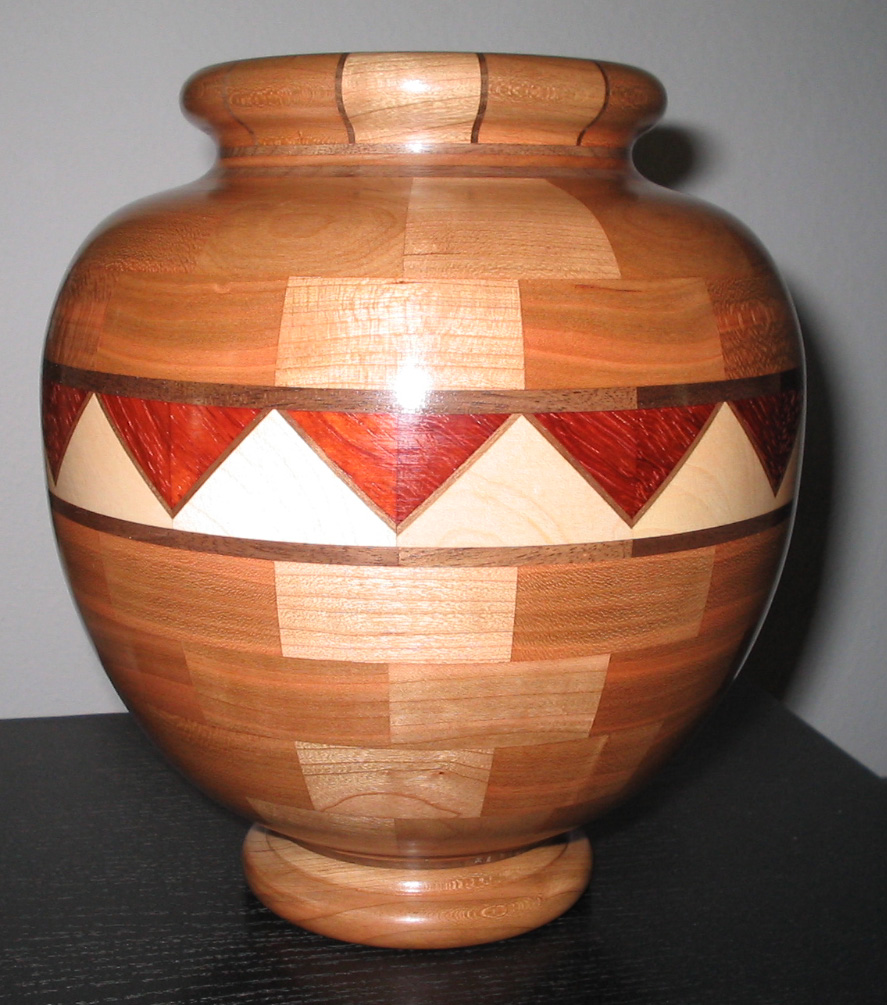 Segmented Vase, by Larry Marley